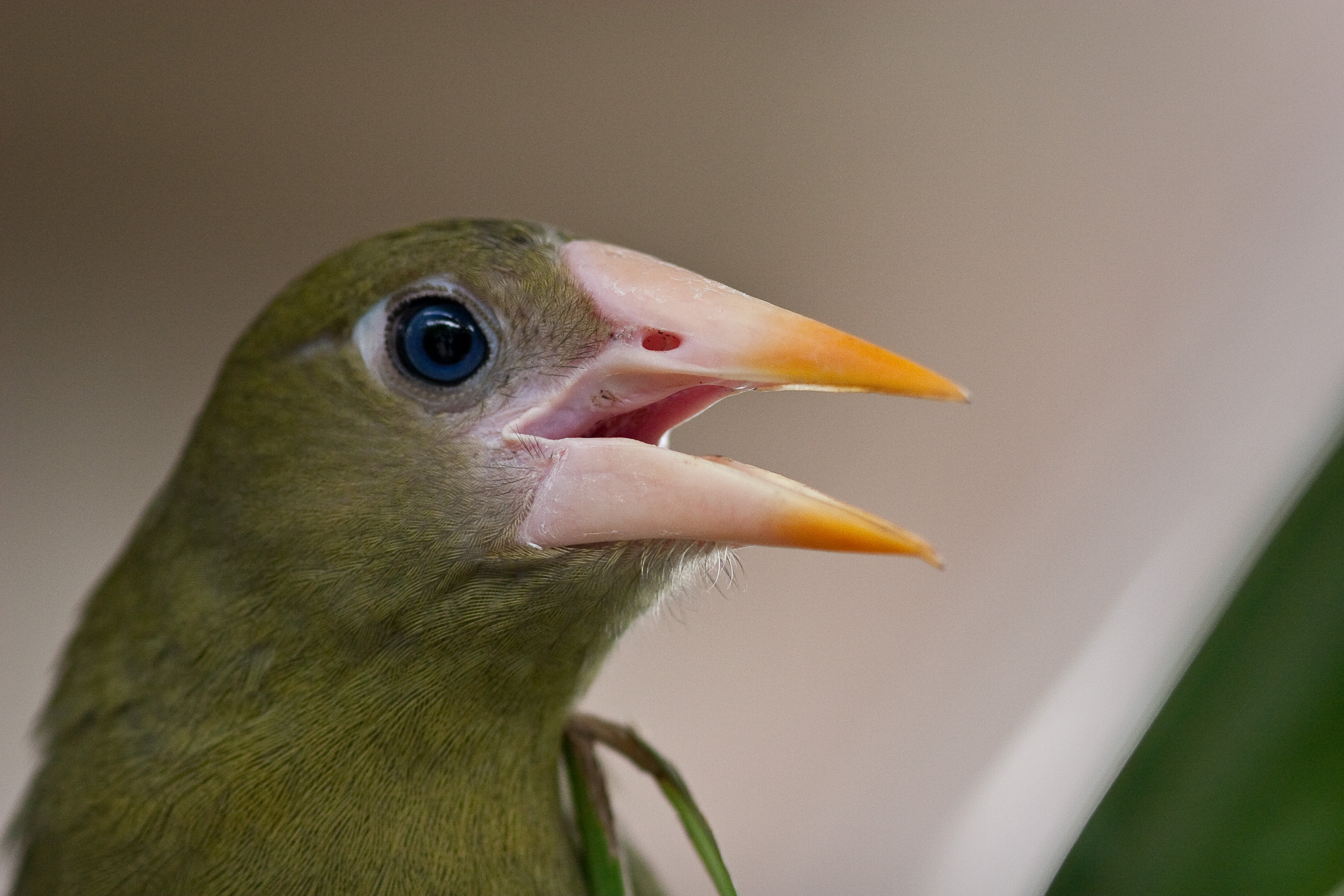 Green Oropendola at Diergaarde Blijdorp, Rotterdam, Netherlands.